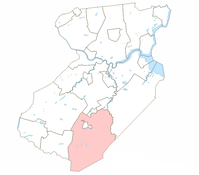 Description: Map of Monroe Township in Middlesex County, New Jersey Source: User:Schzmo (own work, Dec. 2006) Adapted from Image:Middlesex County, New Jersey Municipalities.png by Jim Irwin